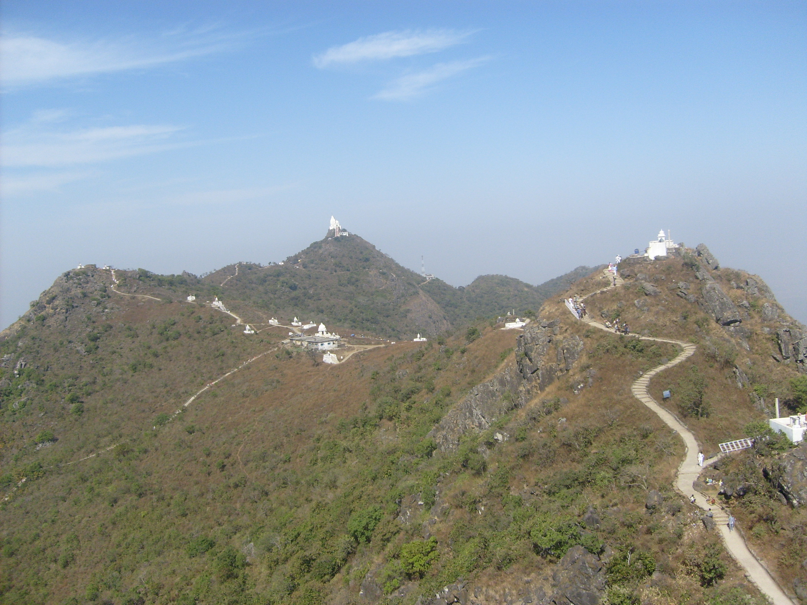 Madhuban Shikharji, Dist Giridih